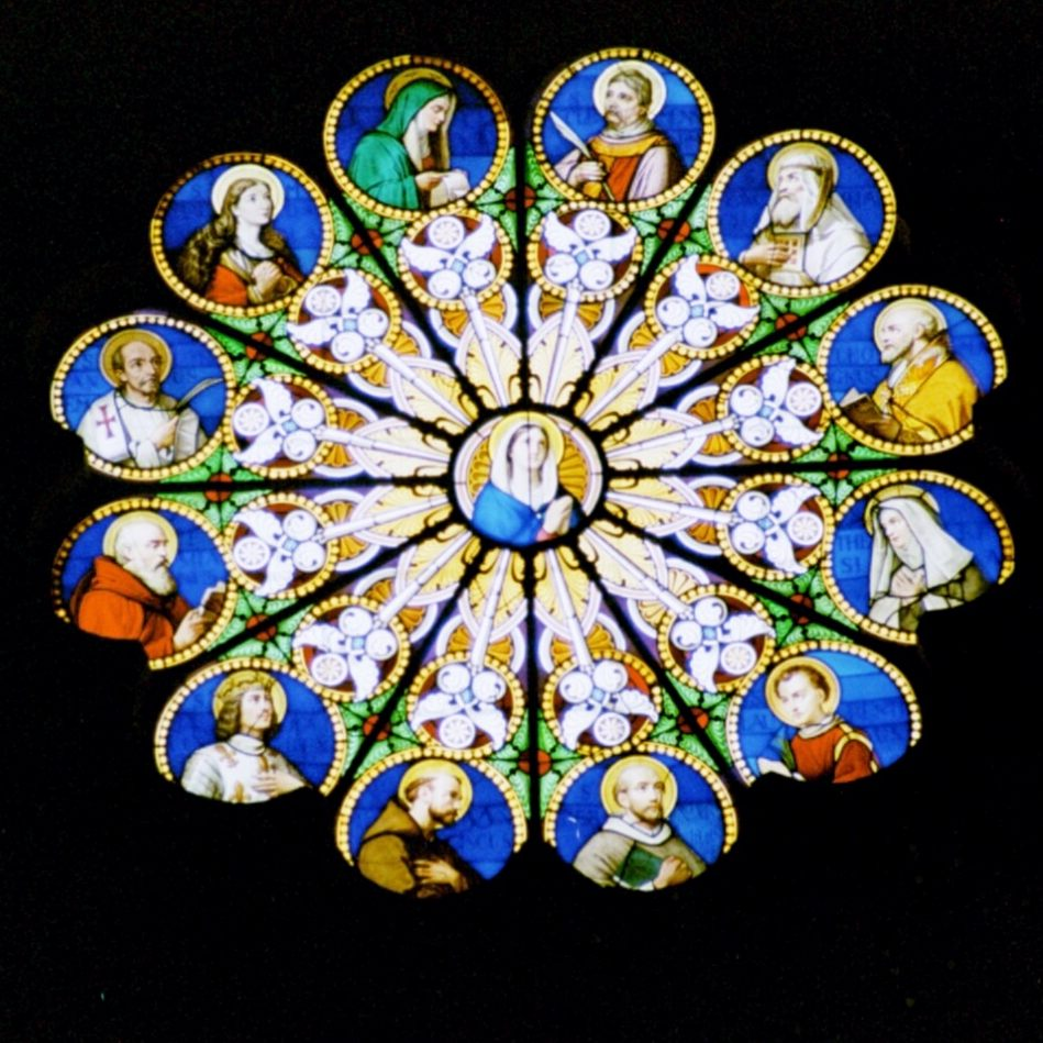 A gothic revival-style stained glass window, in Santa Maria sopra Minerva, Rome, Italy.